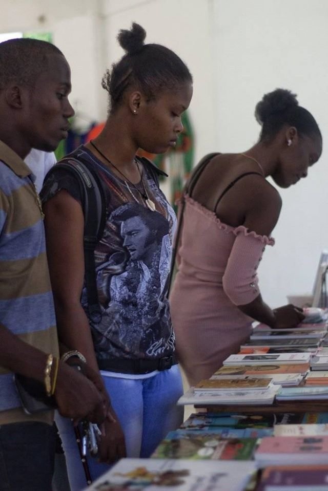 Des jeunes lecteurs en train de regarder et acheter des livres